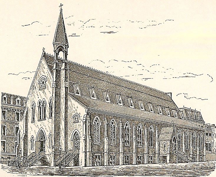 First Church of St. Vincent Ferrer building on Lexington Avenue in Manhattan. Demolished to make way for current church building in 1914.